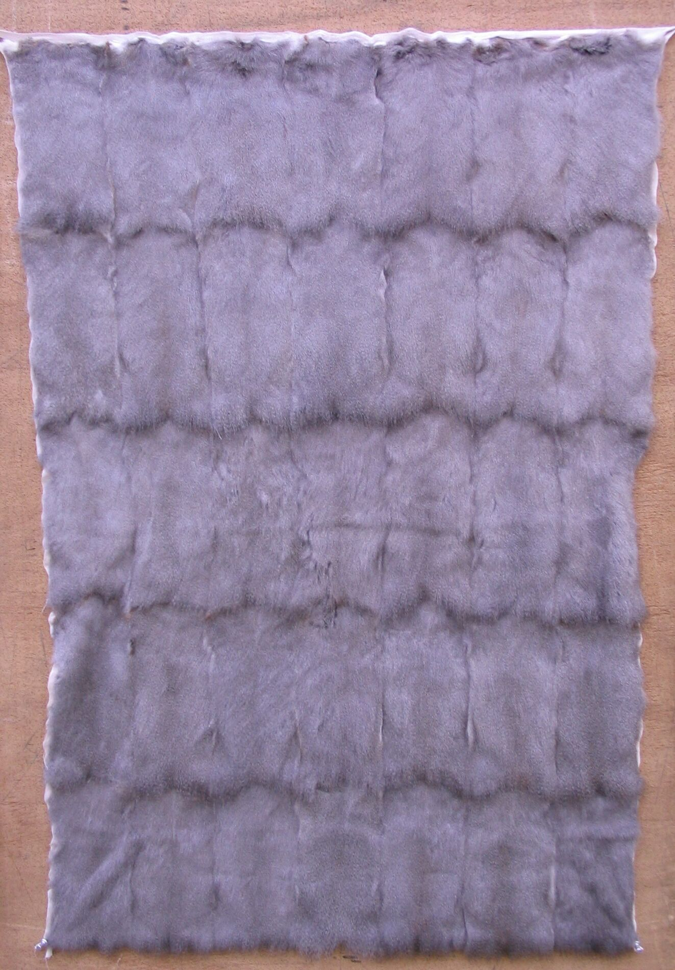 Plate of Russian squirrel backs, Chinese work. 145 x 72 cm.